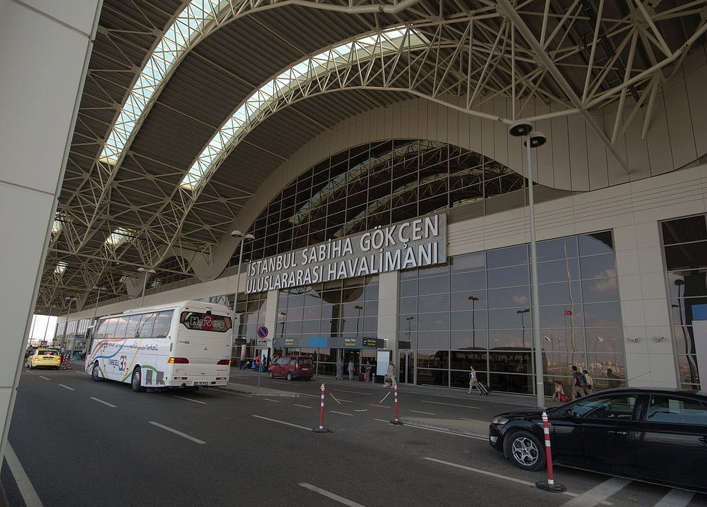 Entrance of Sabiha Gökçen International Airport, Istanbul, Turkey